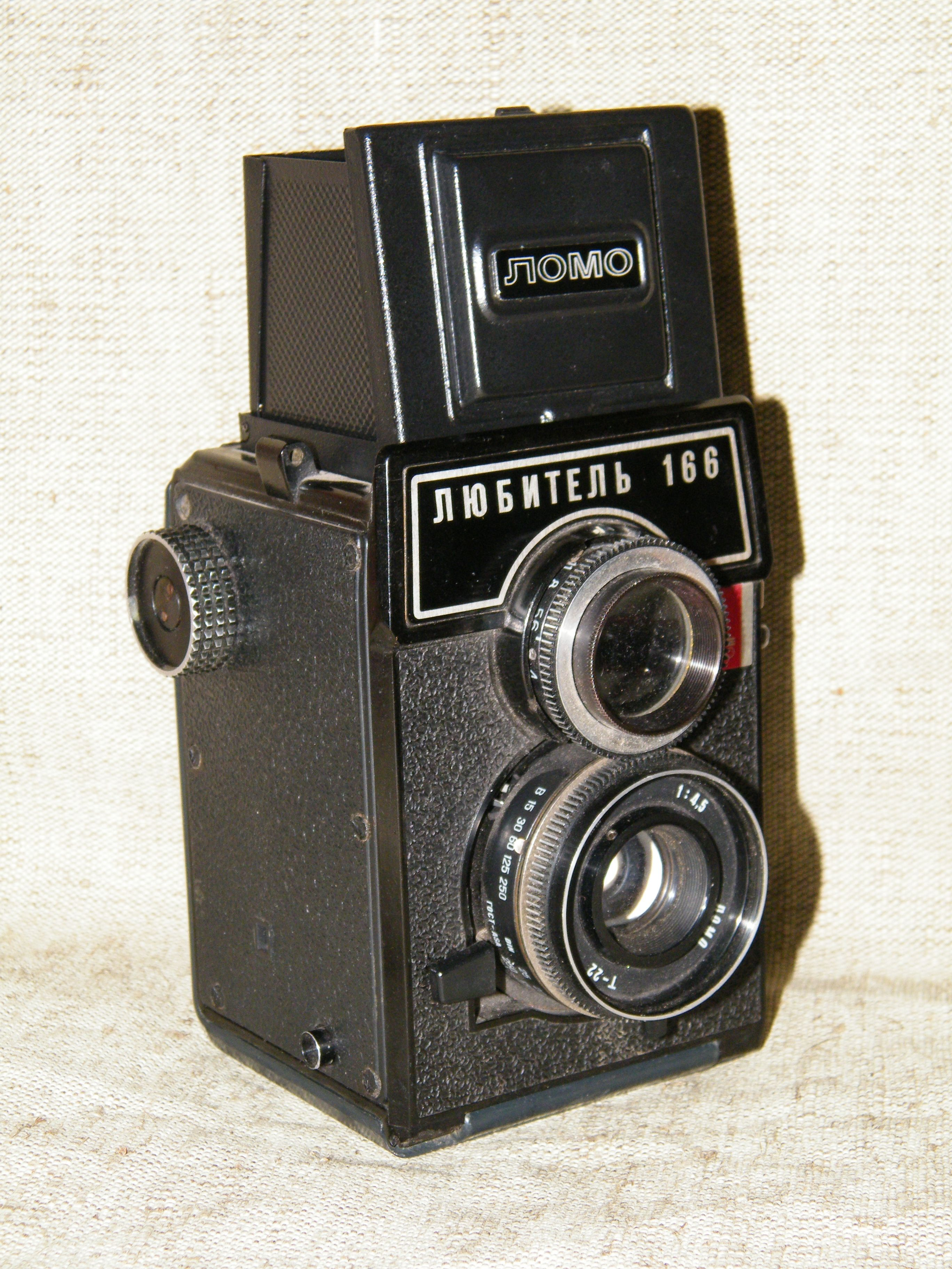 Lubitel 166